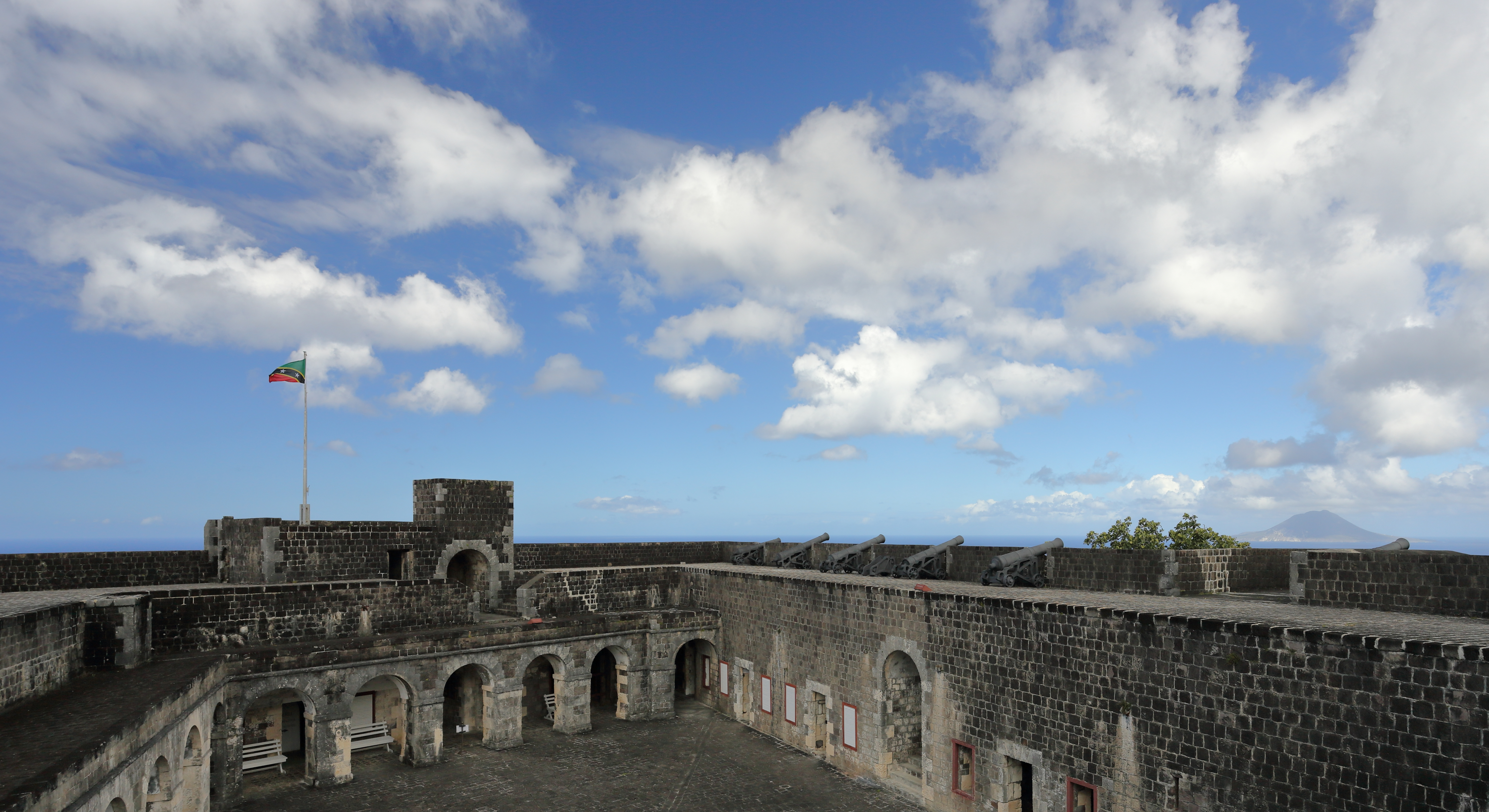 Brimstone Hill Fortress, UNESCO World Heritage Site Ref. Number 910: Fort George Citadel, March 2016.